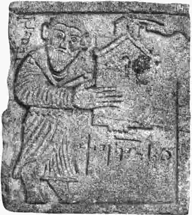 Ashot 1 of Iberia holds monastery